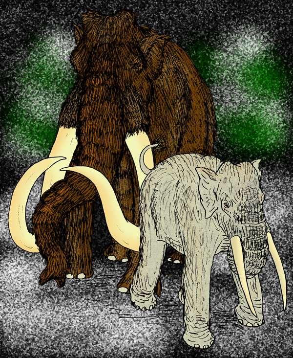 Reconstructions of the prehistoric elephants Mammuthus trogontherii (The Steppe Mammoth), and Elephas namadicus (The Asian Straight-Tusked Elephant), of Pleistocene China (C) Stanton F. Fink